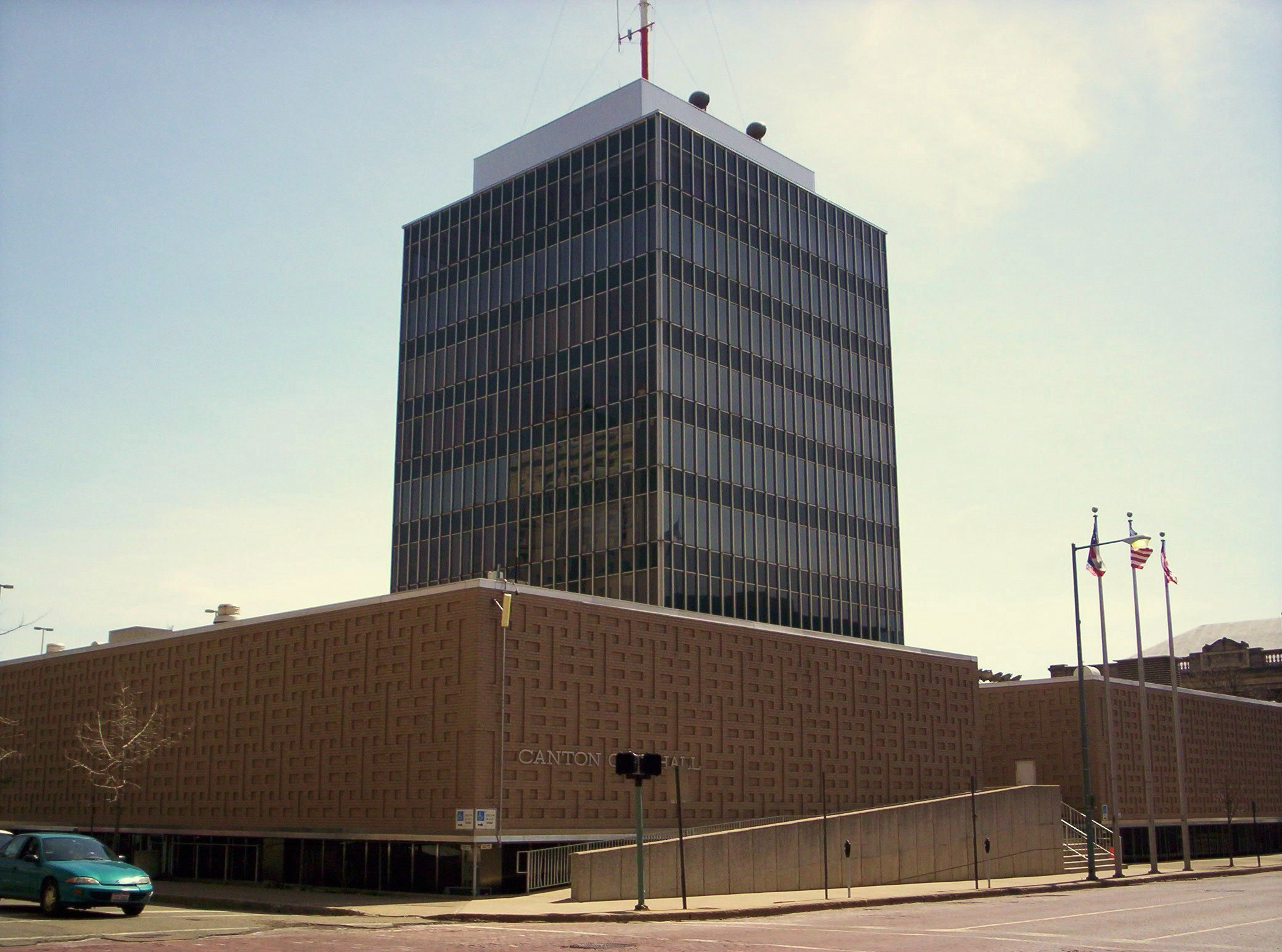 Canton City Hall building in downtown Canton, Ohio, USA.